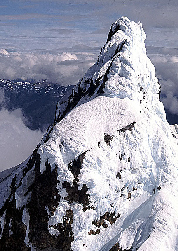 A summit of Melimoyo, southern Chile